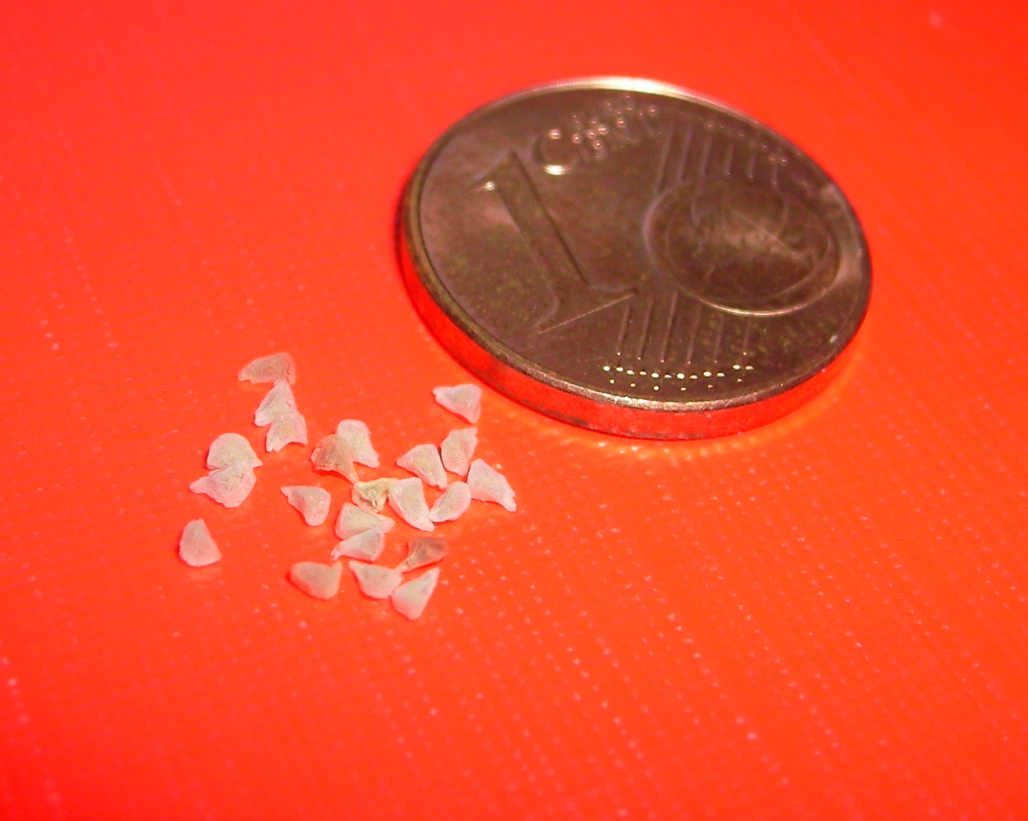 Seeds of Nicotiana tabacum ("Burley")